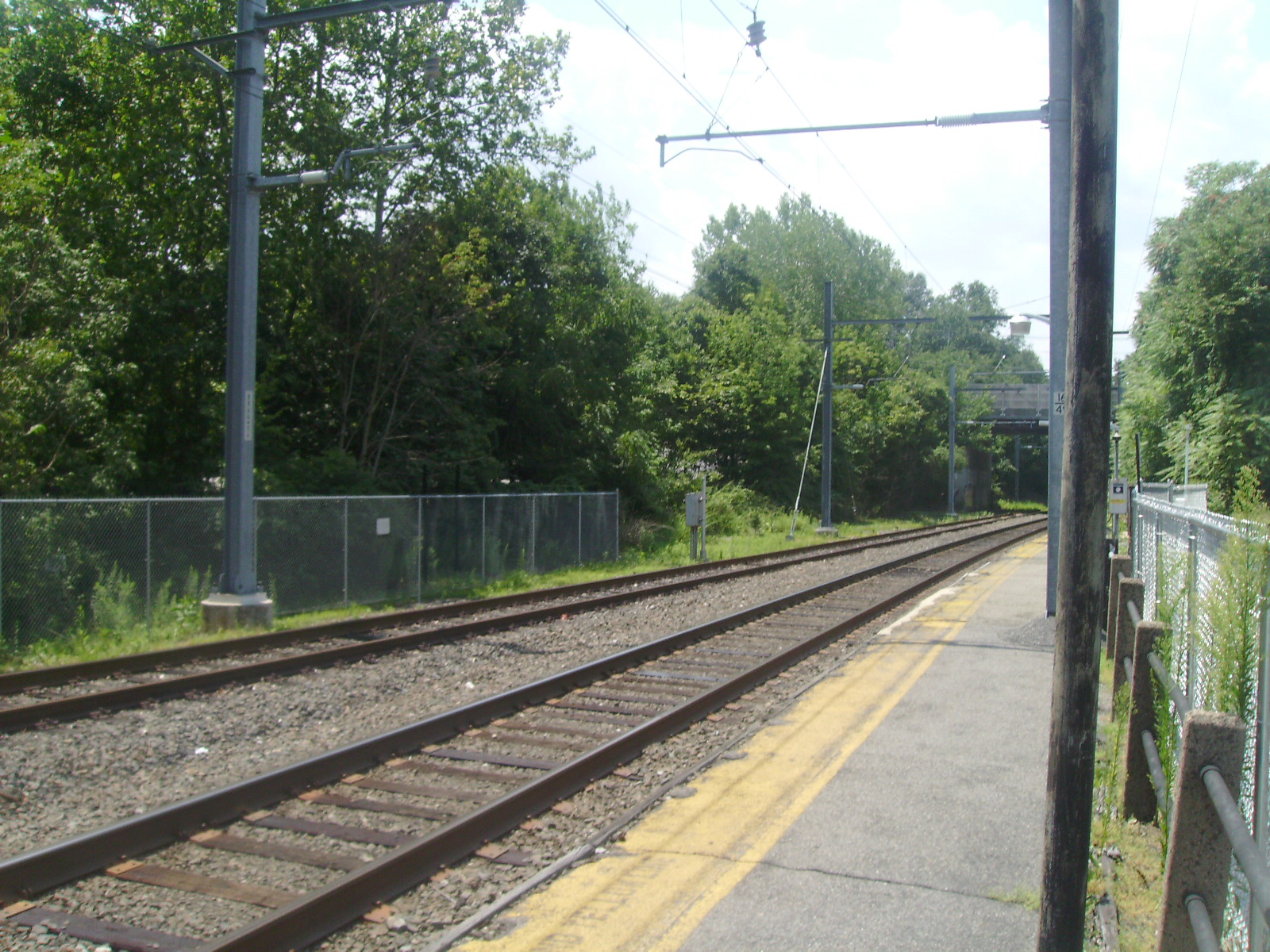 The site of the former Great Notch New Jersey Transit (and formerly Erie Railroad) station, closed in January 2010 by New Jersey Transit. Only difference since closure is removal of signage (or most of it) and the shelter is gone.